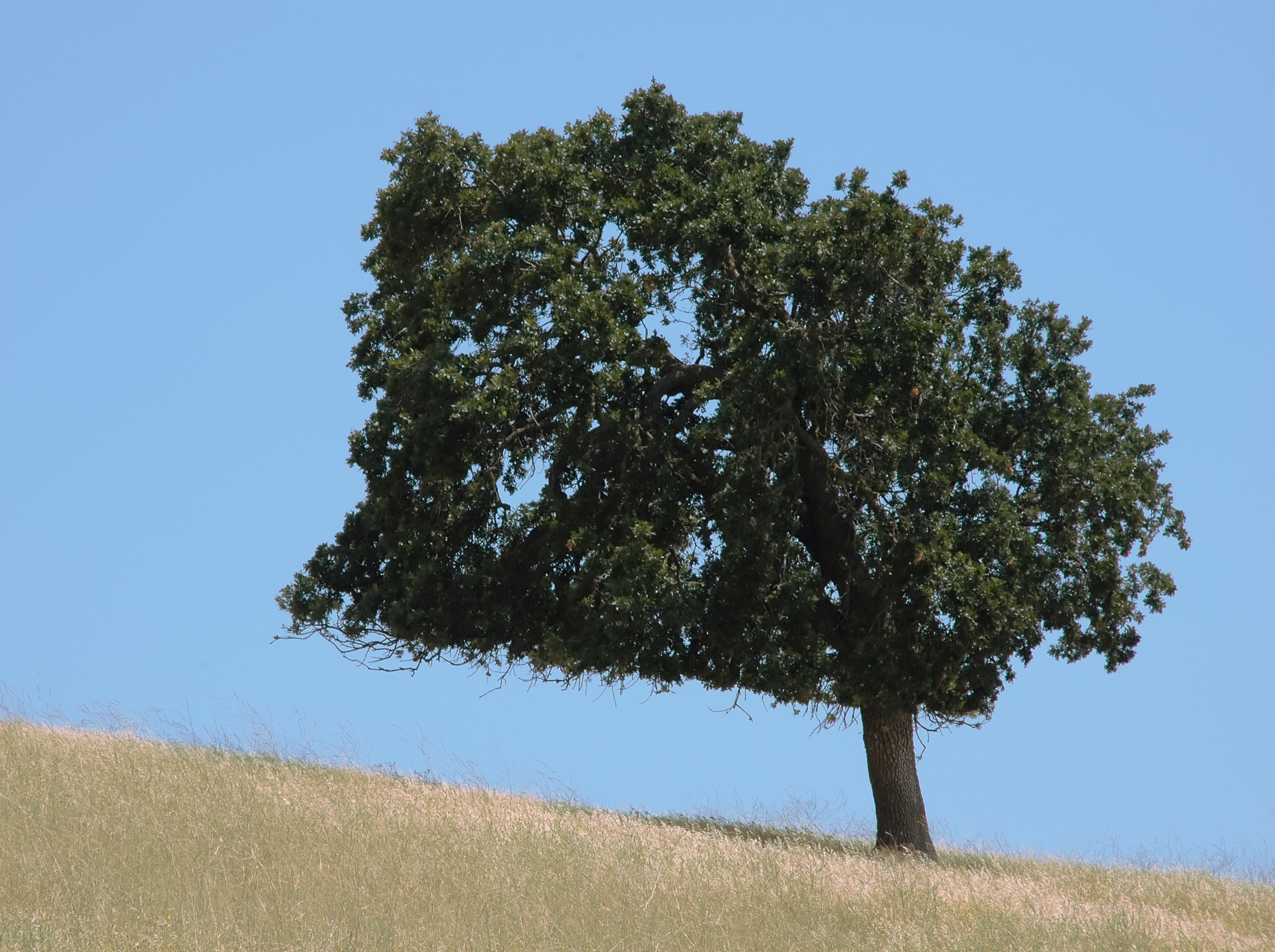 Lone tree on a summer's hillside — a Coast Live Oak (Quercus agrifolia). At Walnut Creek Open Space, California. reference